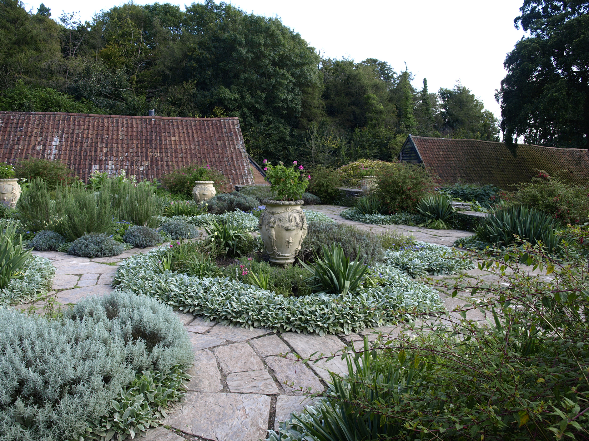 Hestercombe Gardens, Taunton, Somerset, UK. Designed by Sir Edward Lutyens and established in 1904-08.